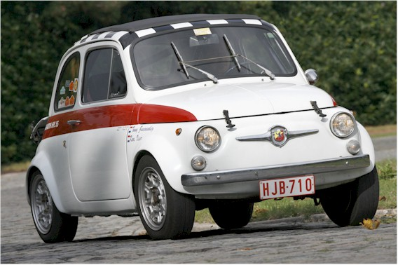 Fiat Abarth 695